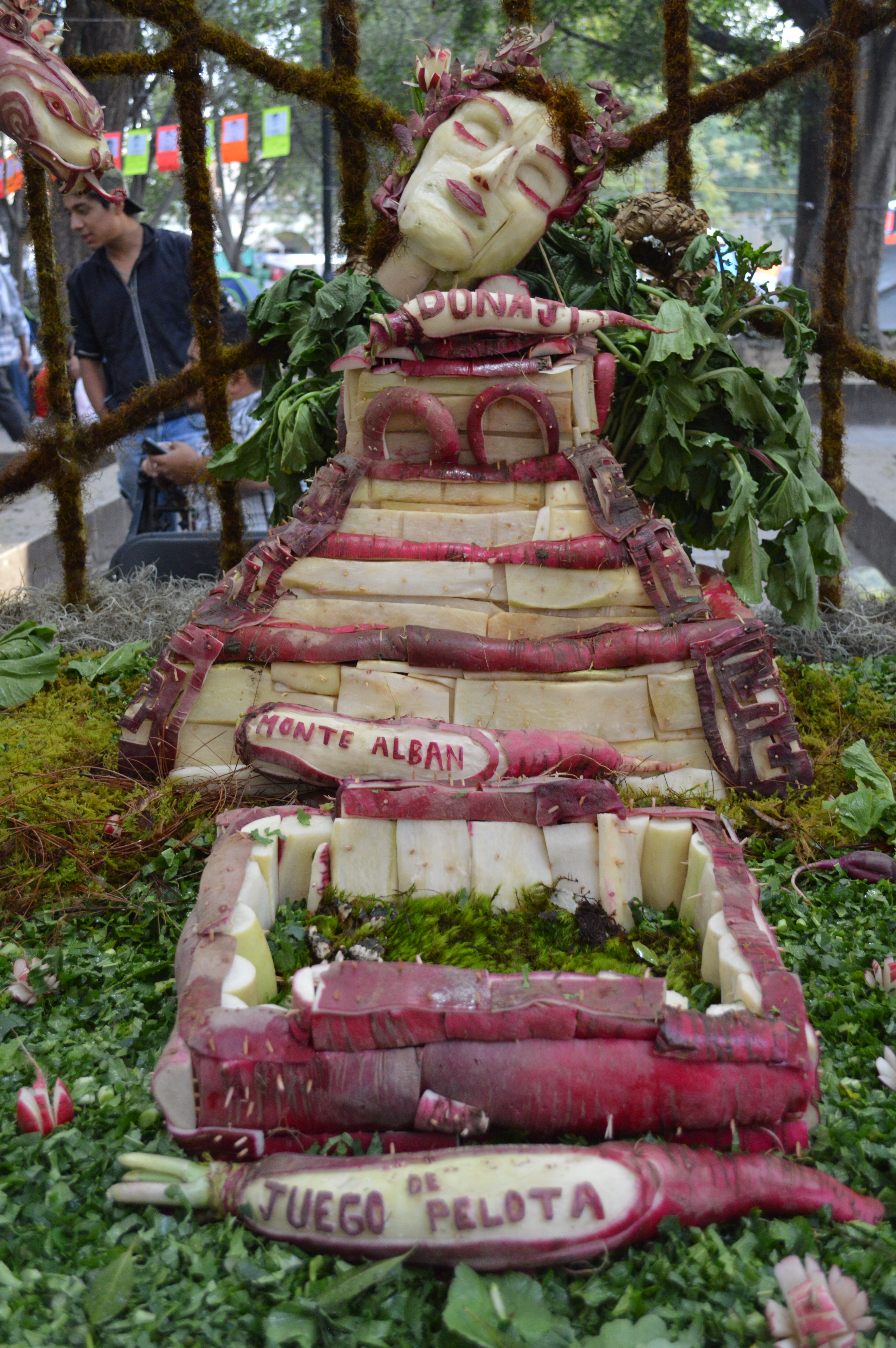 "Soy Oaxaca" by Reyna Elvira Alonso Ortiz at the 2014 Noche de Rabanos in the city of Oaxaca, Mexico